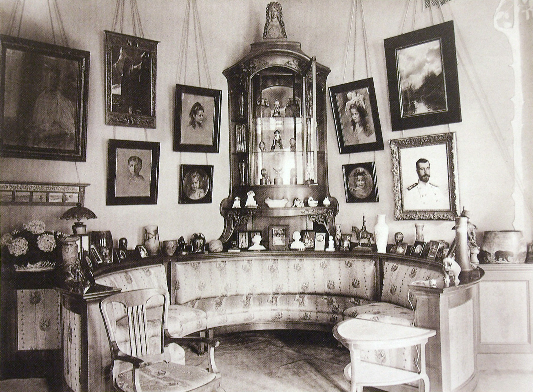 Corner cabinet and couch in the Maple Room, Alexander Palace.